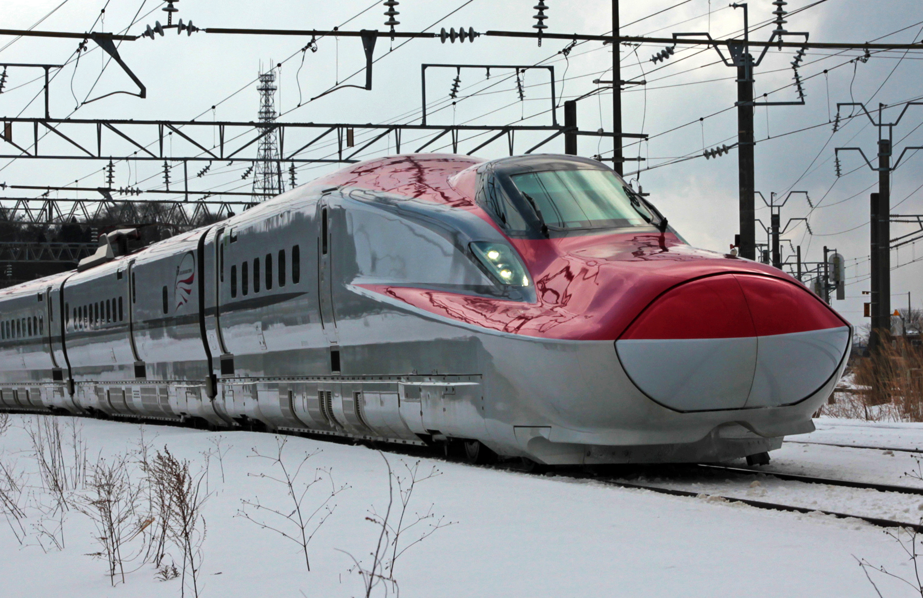 A JR East E6 series shinkansen set near Akita on an Akita Shinkansen Super Komachi service